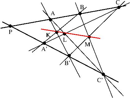 Illustrating Pappus' theorem.